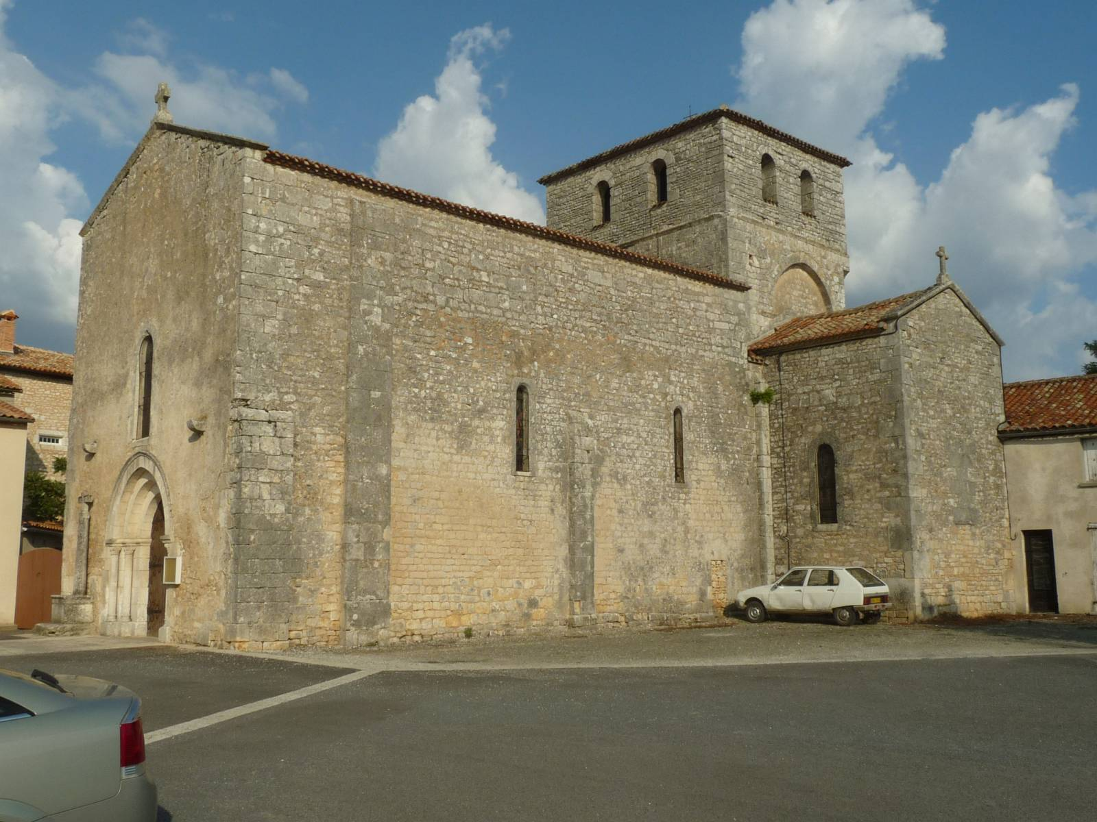 church of Bunzac, Charente, SW France